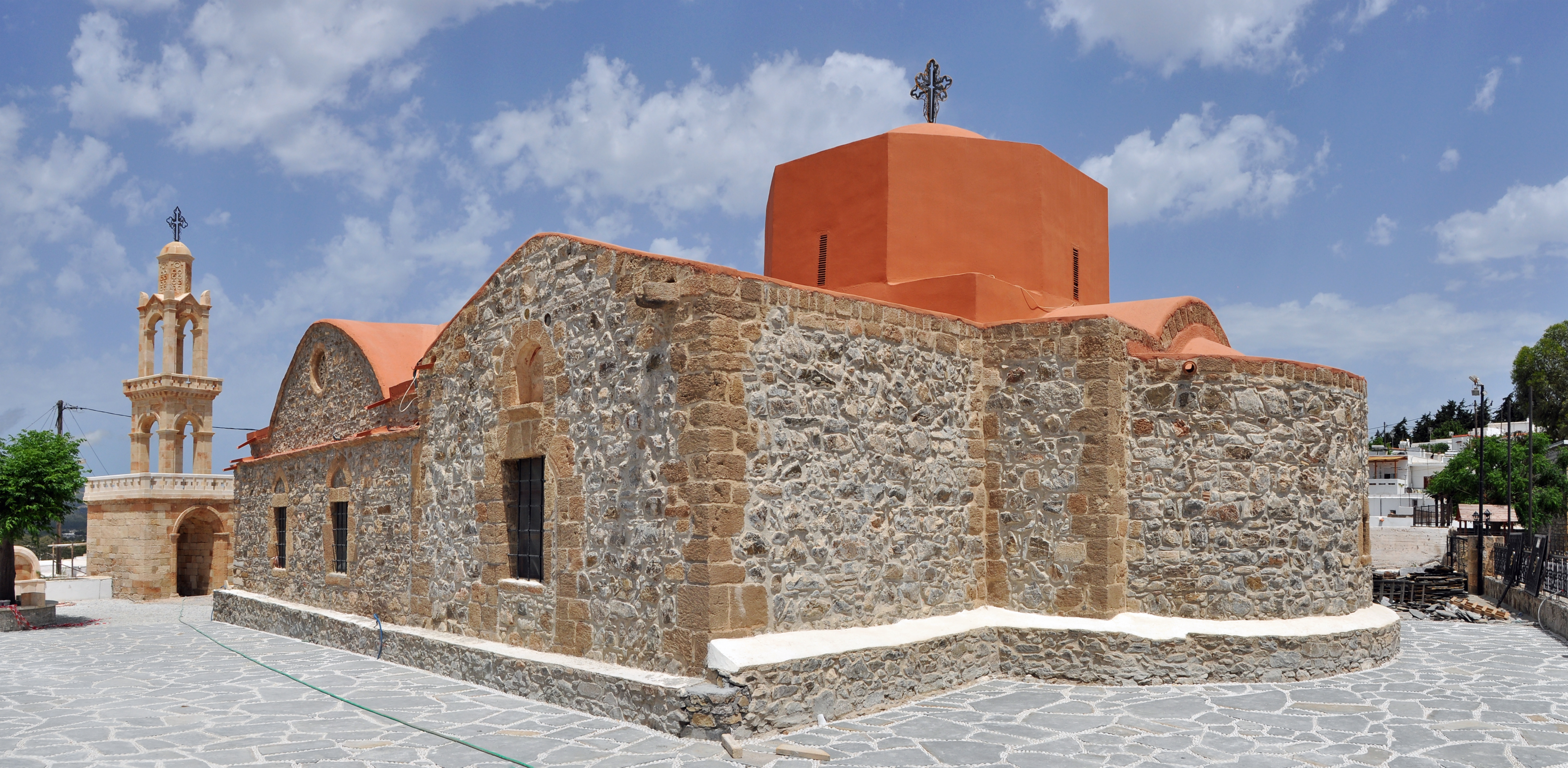 Asklipio (Rhodes, Greece): church of the Dormition of the Virgin Mary